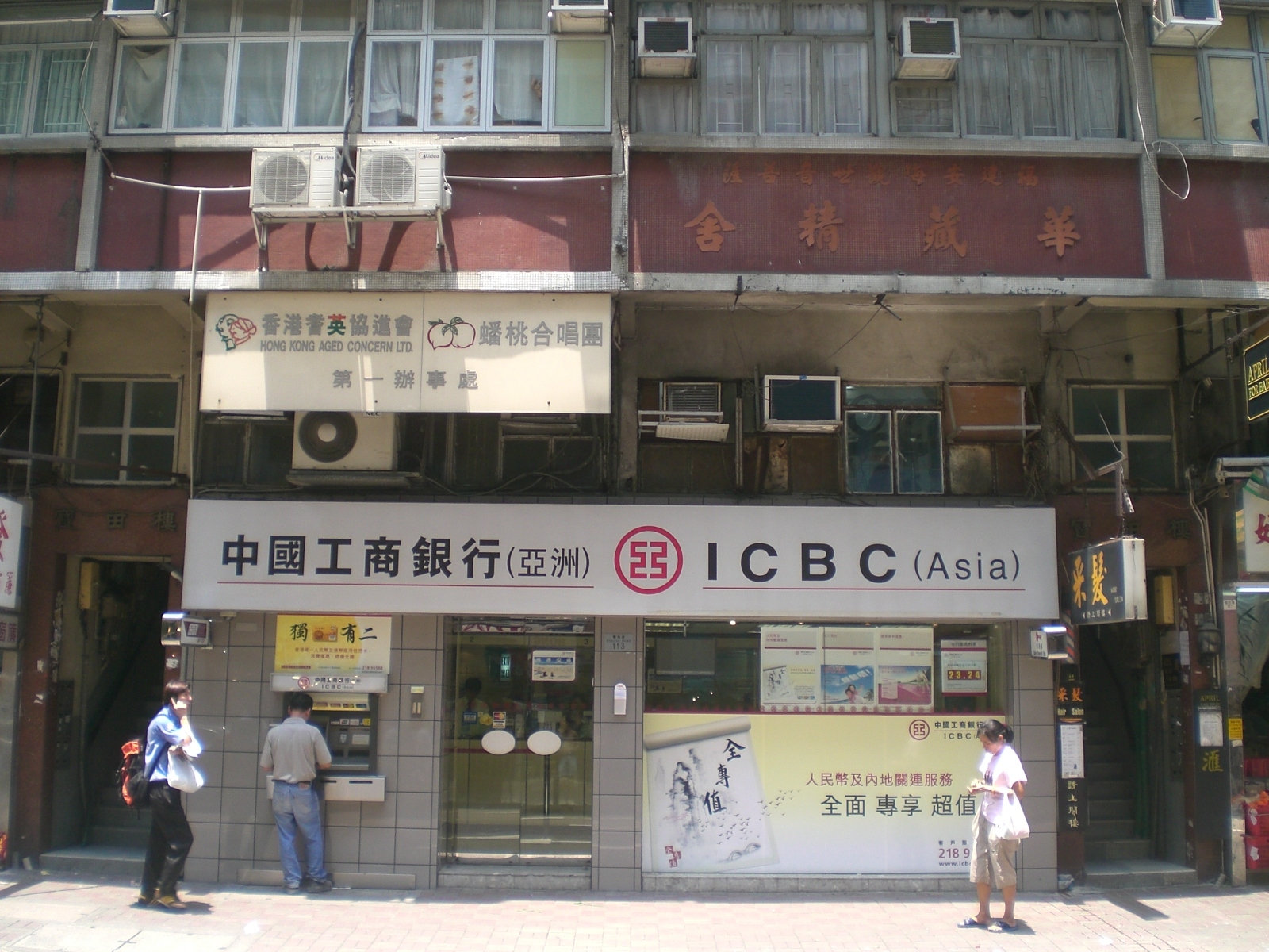 銅鑼灣天后中國工商銀行(亞洲)電氣道分行